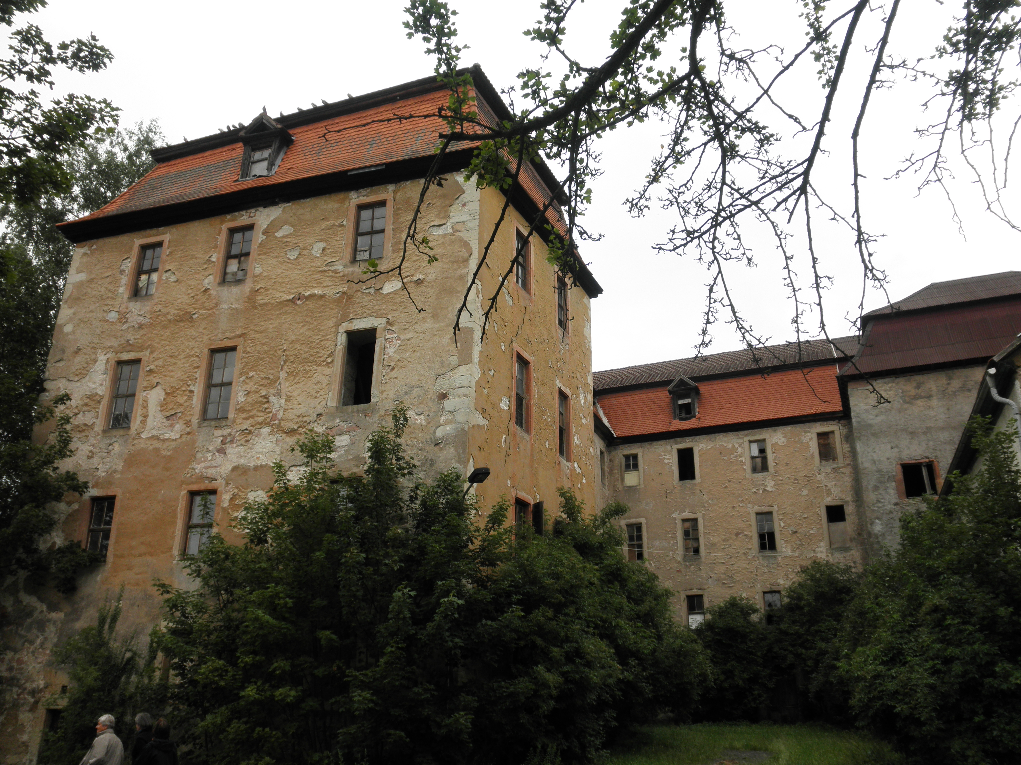 Castle in Schwarza (Thüringer Wald) in Thuringia